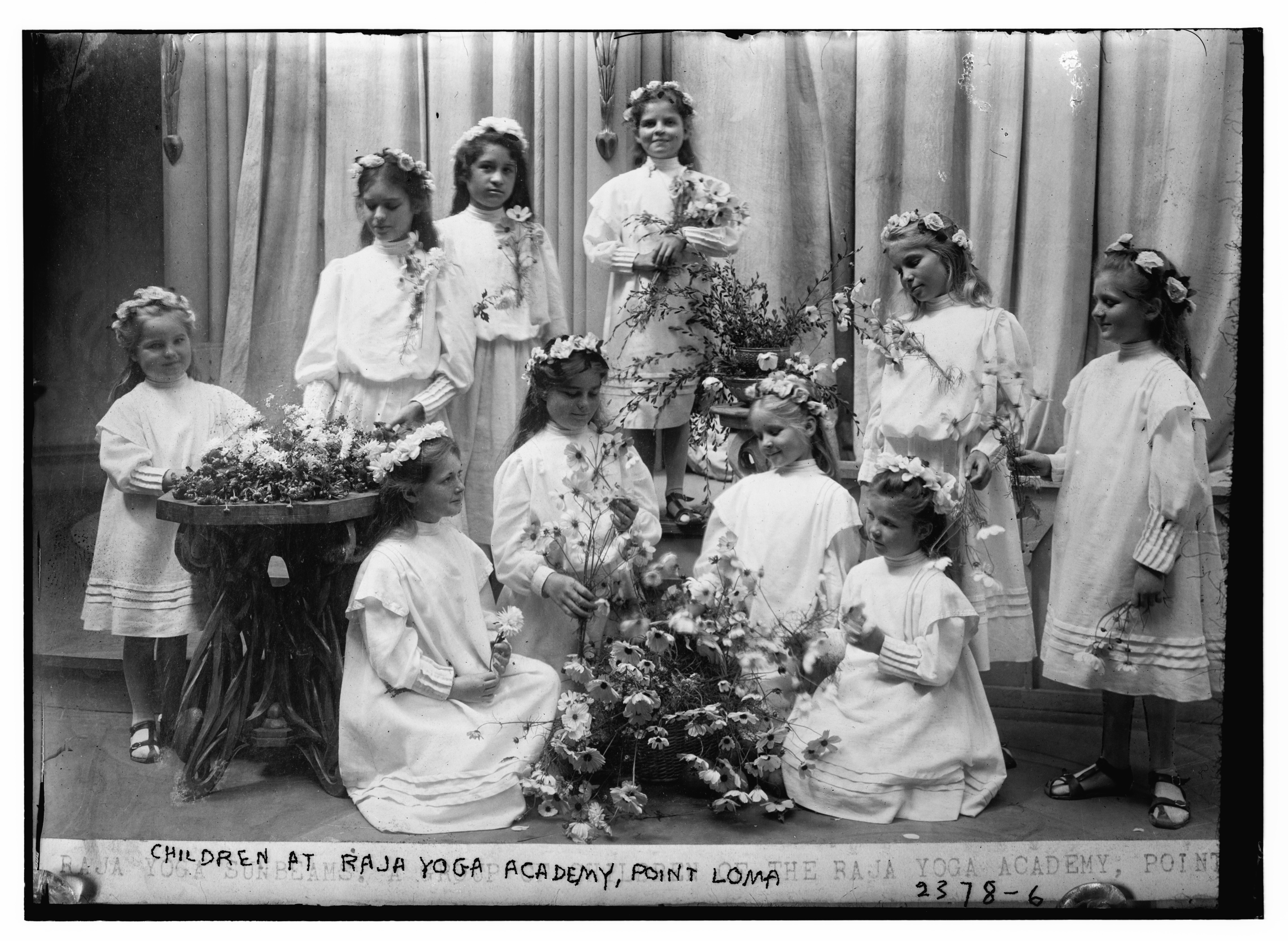 Title: Children at Raja Yoga Academy, Point Loma Abstract/medium: 1 negative : glass ; 5 x 7 in. or smaller.